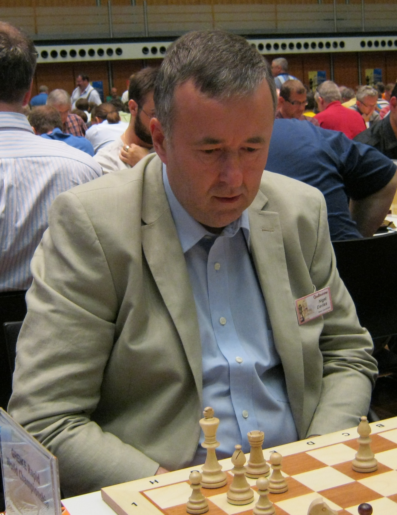 Nigel Davies, chess grandmaster, at Mainz Chess Classic